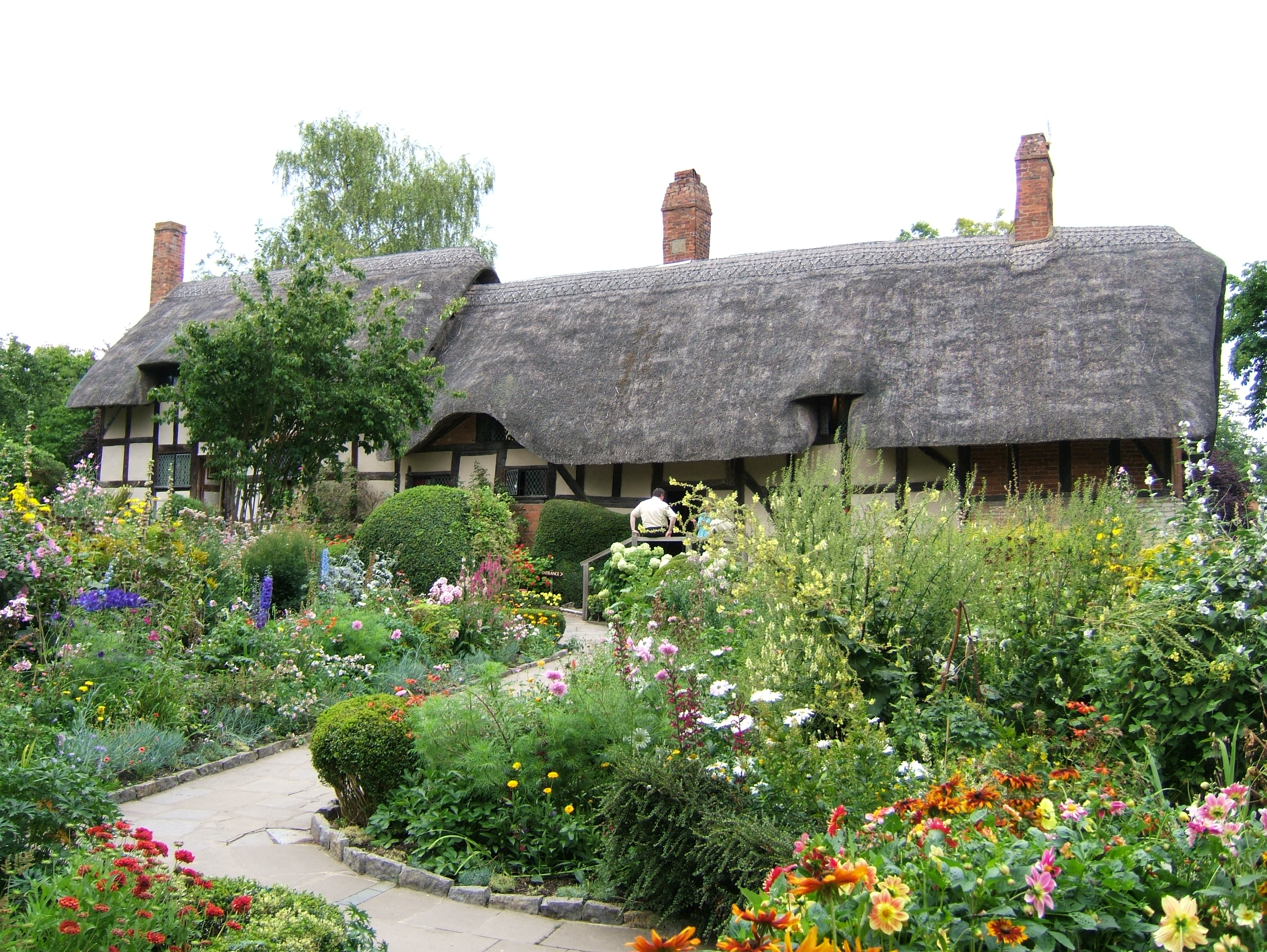 Anne Hathaways Cottage and gardens, Stratford-upon-Avon, Warwickshire, United Kingdom.